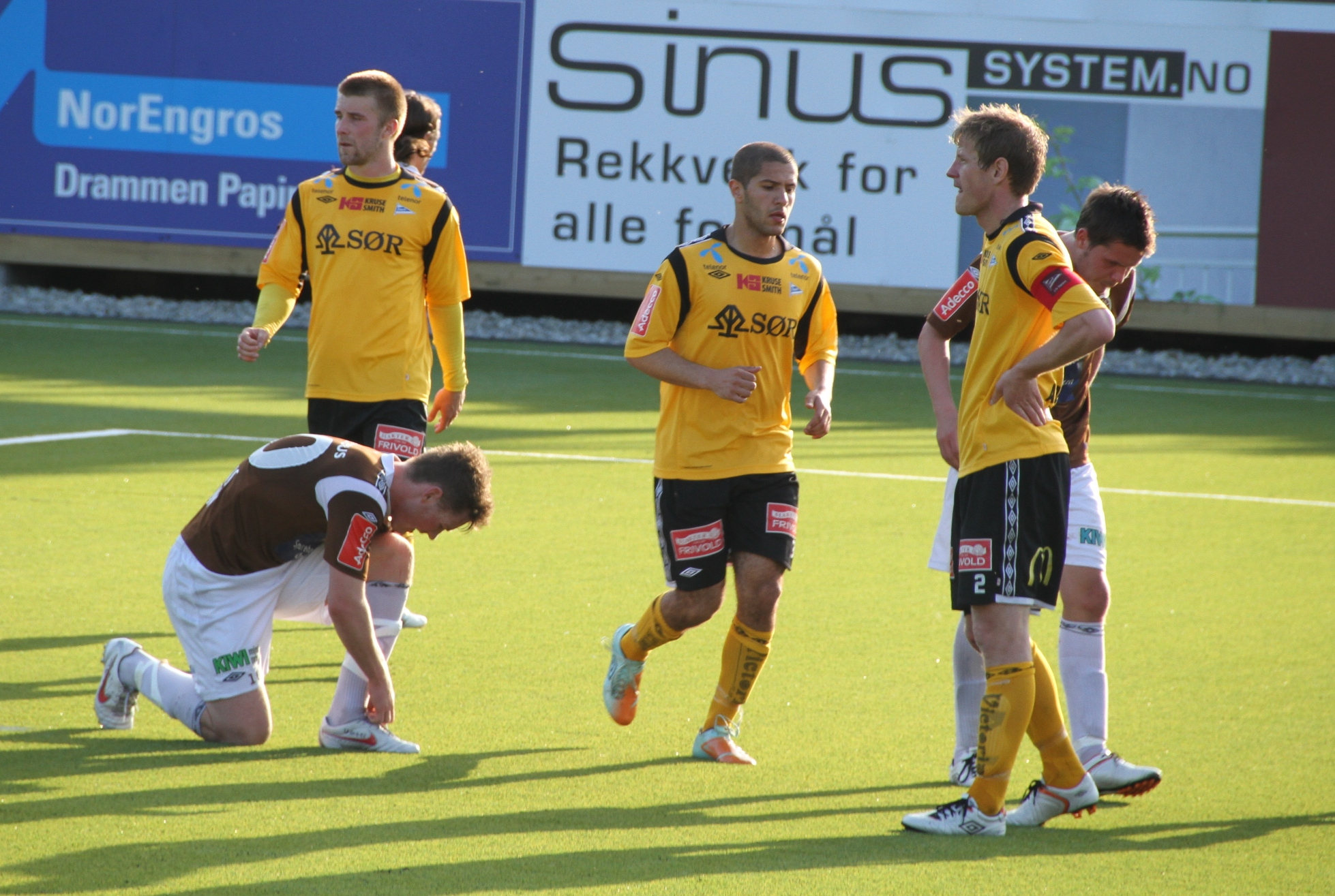 IK Start (Norway) players in match against Mjøndalen. May 20, 2012.